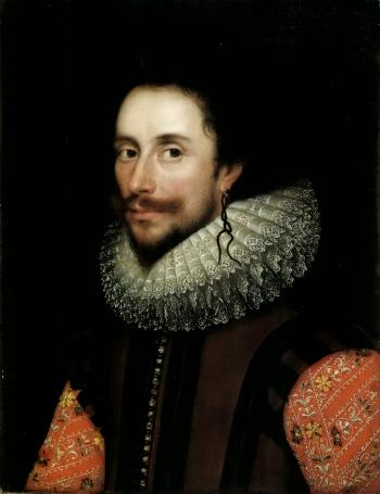 Portrait of a Gentleman, probably Sir Francis Nethersole, wearing an embroidered doublet.